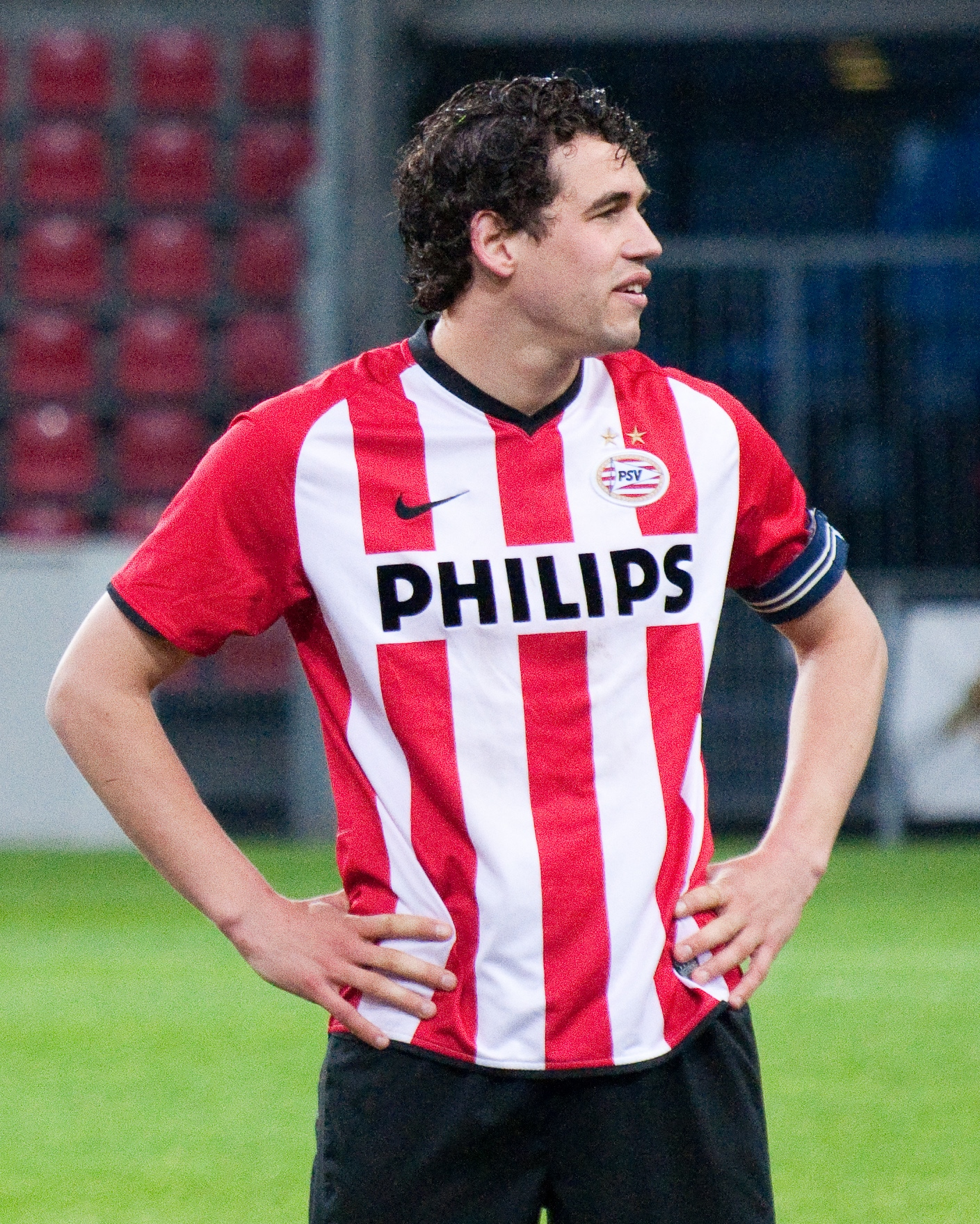 Dirk Marcellis after the match PSV U-23–Willem II U-23 (4-0) on 3 May 2010, in which Jong PSV took the Beloften Eredivisie title.